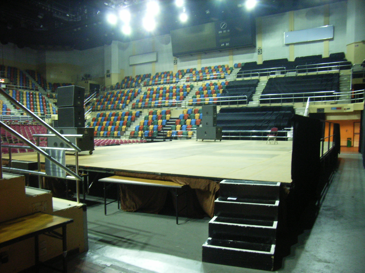 Around the Oi Kwan Road, Wan Chai, Hong Kong Author:Wenzi MHTI